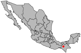 Location of Tuxtla Gutiérrez, Chiapas, Mexico